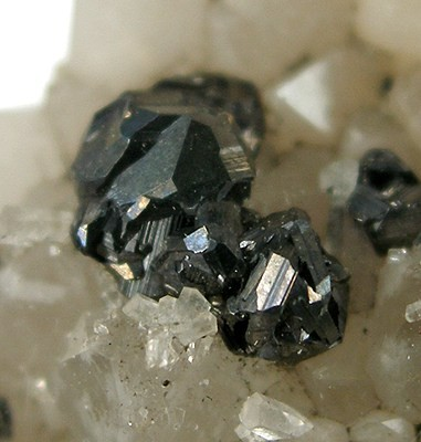 Freieslebenite Locality: Neue Hoffnung Gottes Mine, Bräunsdorf, Freiberg District, Erzgebirge, Saxony, Germany (Locality at ) Size: 5.6 x 4.4 x 1.9 cm. This beautiful little specimen features extremely sharp twinned Freieslebenite crystals to 4mm (as a cluster), perched on crystallized quartz matrix. It was once in the Museum of Bonn in Germany, and their label notes that they obtained it from the famous German dealers August Krantz (1809-1872) and his son, who lived in Bonn from 1850 on.